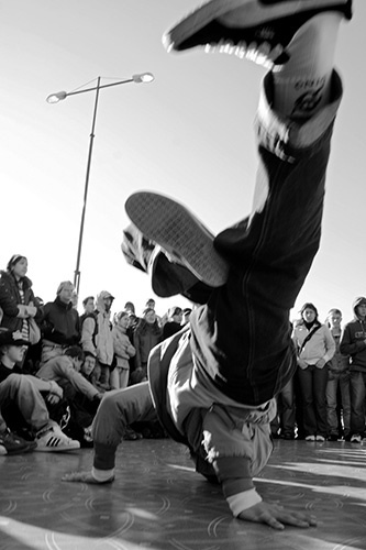 A b-boy performing at Street Summit 2006 in Moscow, Russia.